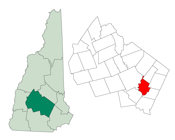 Map of a municipality in Merrimack County, New Hampshire